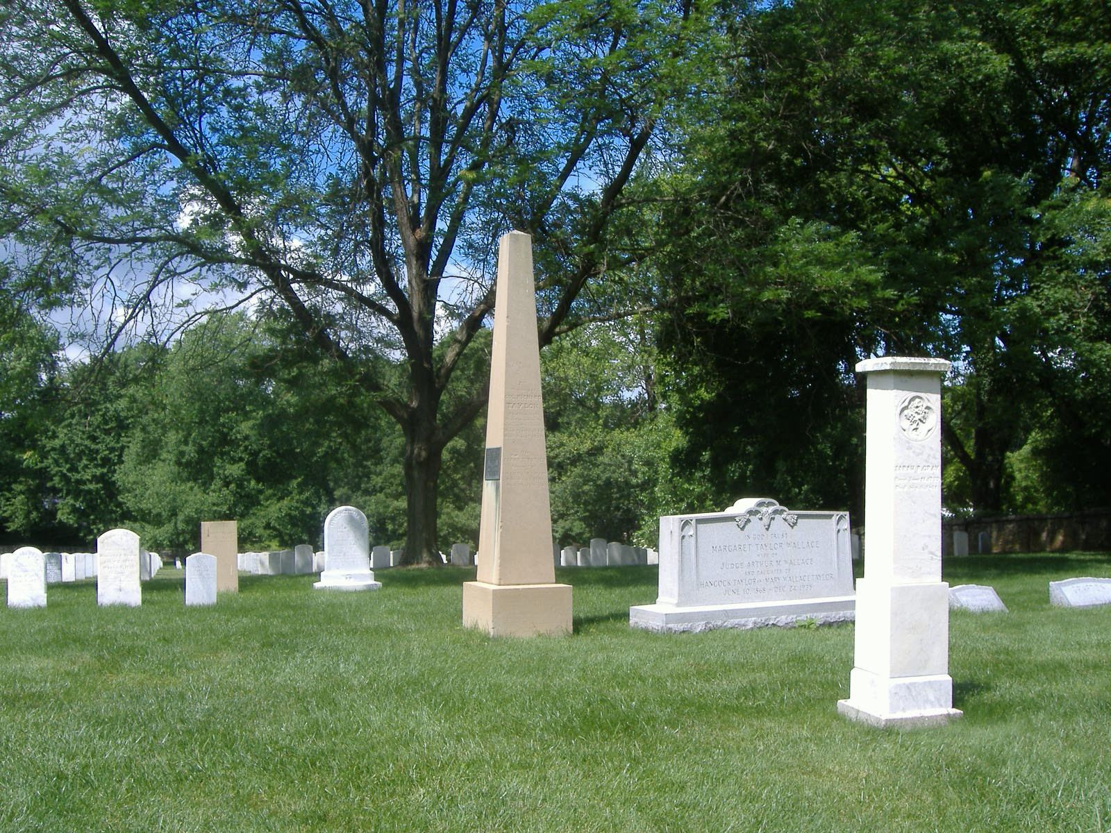 Richard Taylor (colonel)'s old grave in Zachary Taylor National Cemetery in Louisville, Kentucky.